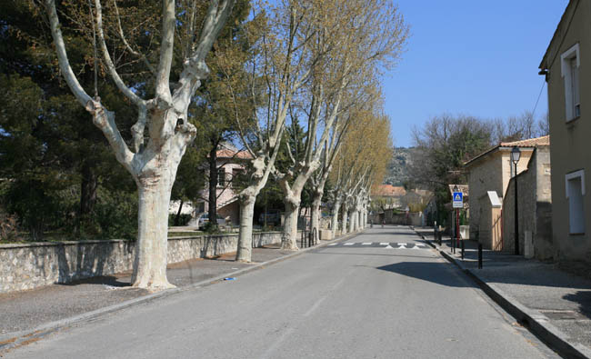 Village of Merindol in Vaucluse, France